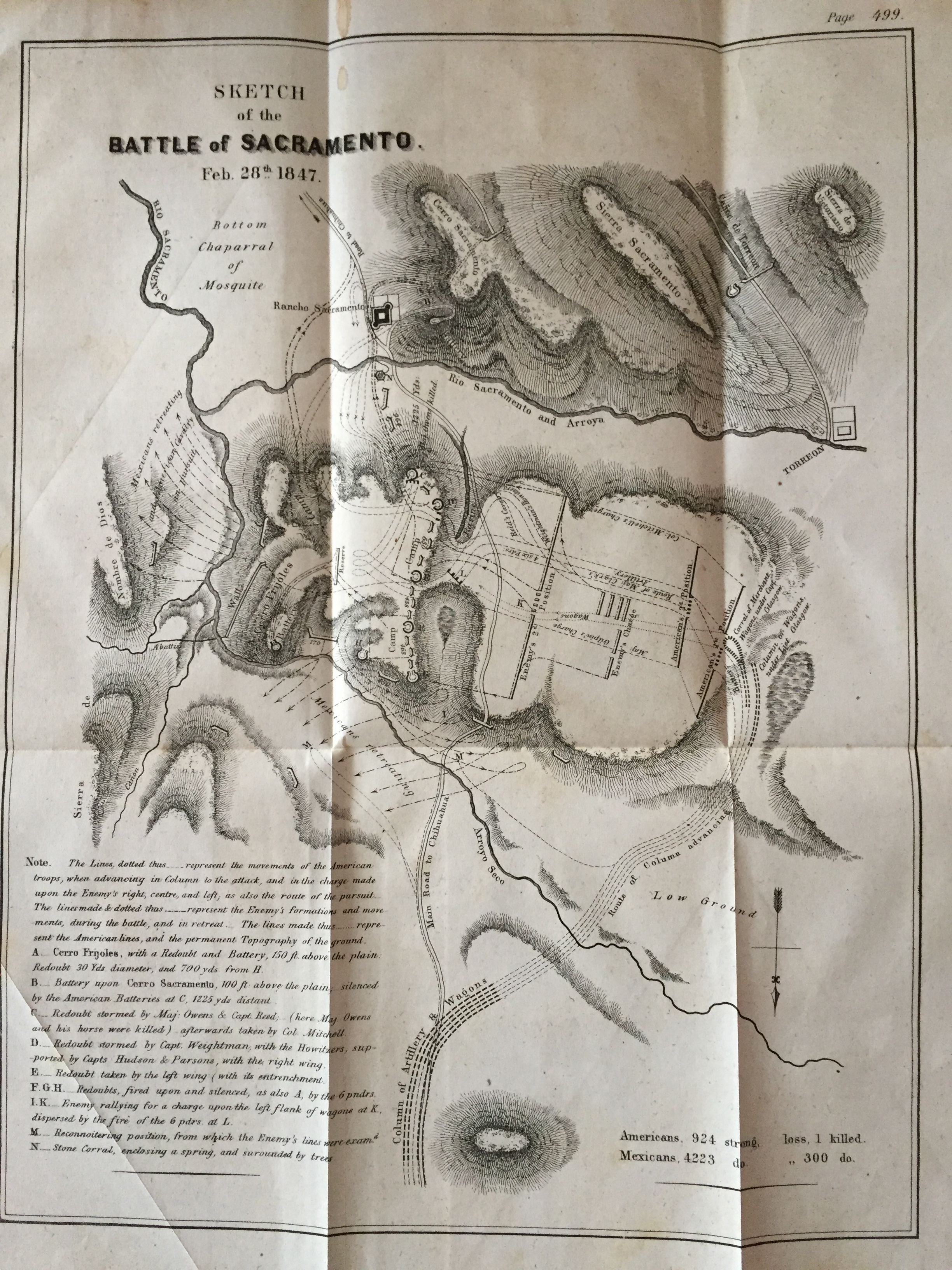 Engraving depicting the formation and movement of the American and Mexican troops and the permanent topography of the ground for the battle of Sacramento, February 28th 1847.